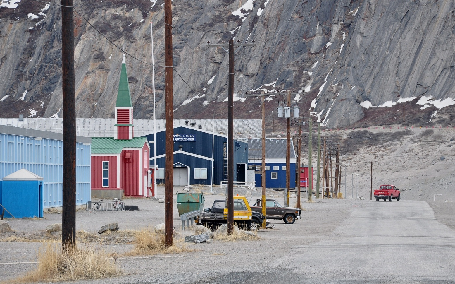 Myers Avenue in Kangerlussuaq, Greenland, with church and Congress Centre.